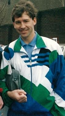 Bryan Robson, former Man. United player, in 1992 at the cliff training ground.